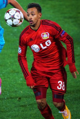 Karim Bellarabi